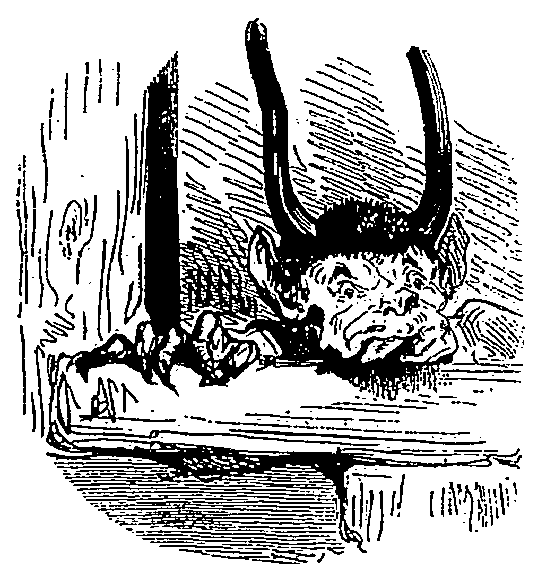 Kobold, an illustration from the "Dictionnaire Infernal" by Jacques Collin de Plancy.